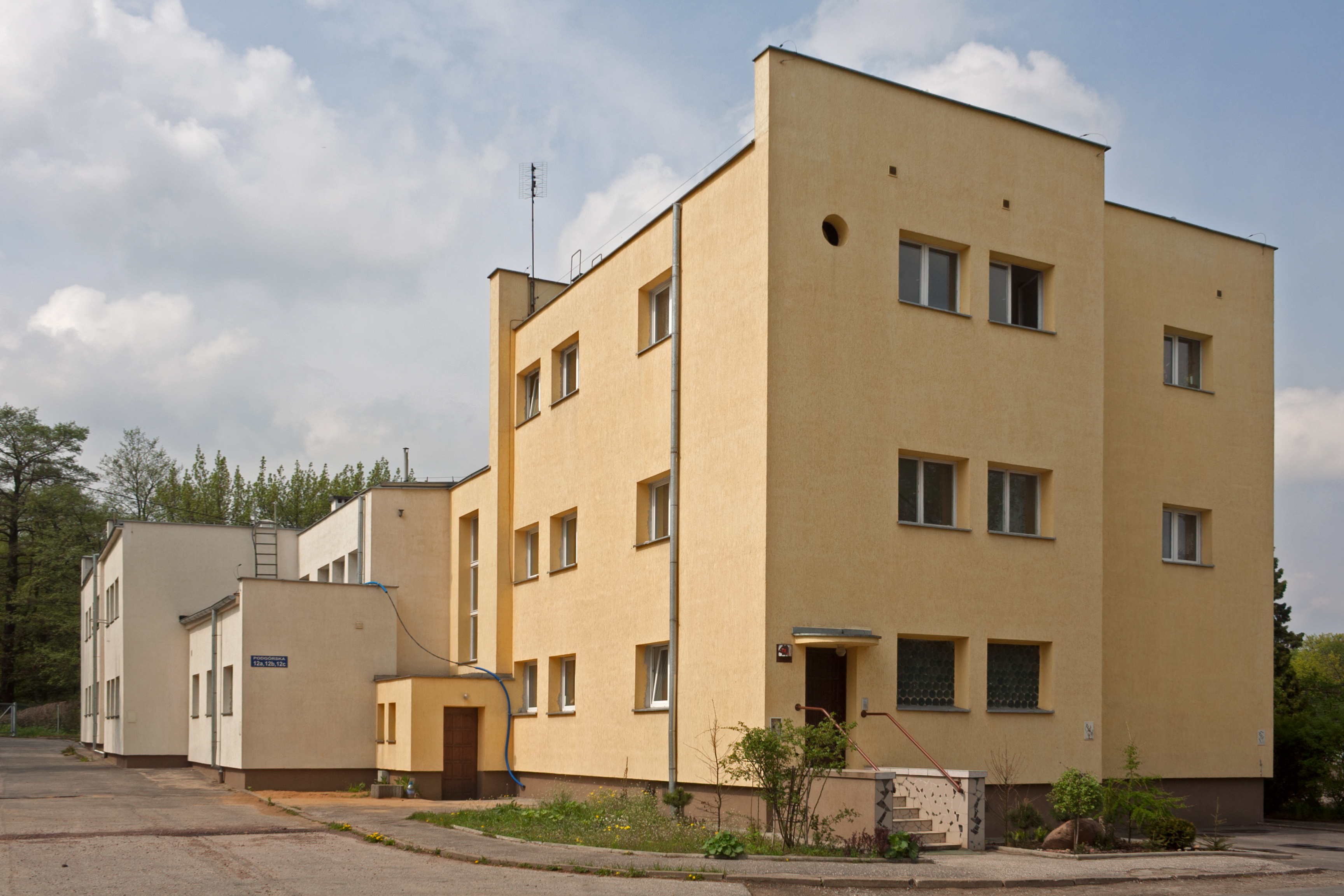 Former building of radio station in Toruń by Antoni Dygat completed in 1934, rebuilt after 1945.